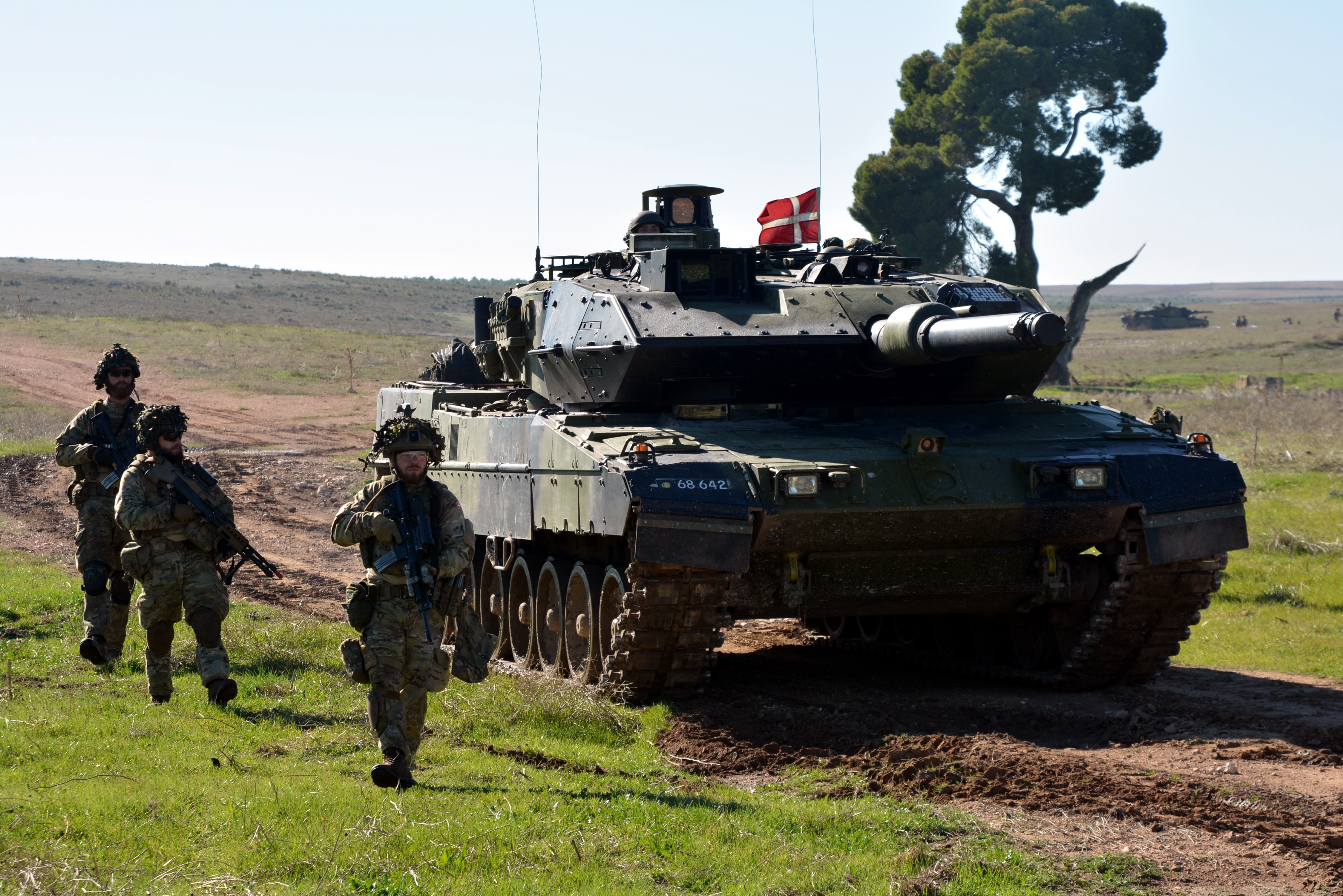 Danish soldiers move through the training area on patrol with a Leopard tank at Chinchilla, Spain on October 22, 2015 during NATO exercise Trident Juncture 15.